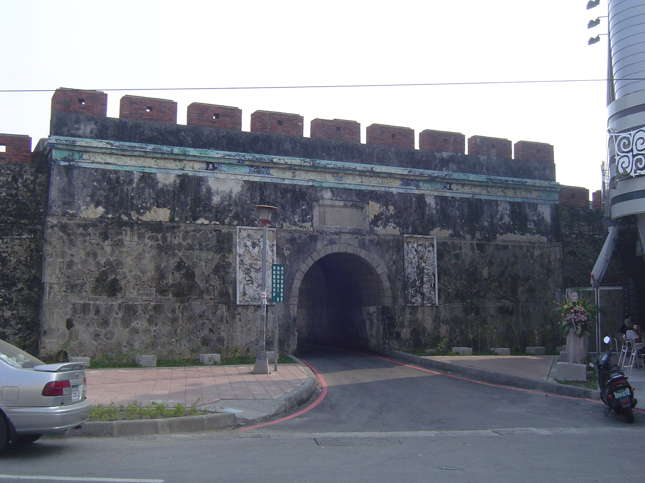 Old north city gate of Fengshan near Kaohsiung, Taiwan. Other city gates of Fengshan: south gate, east gate, former west gate.